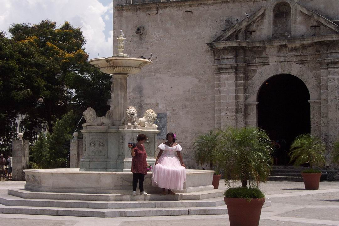 Cuba